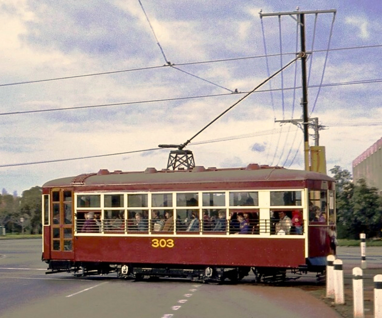 A four-wheeled tram -- Type G, no. 303 -- on the Glenelg tram line runs over a level crossing on Greenhill Road during an Adelaide "centenary of transport" festival in 1978. The tram is a "Birney Safety Car" built by the J.G. Brill Company of Philadelphia, USA, in 1935 before assembly in the workshops of the Municipal Tramways Trust, Adelaide, South Australia..